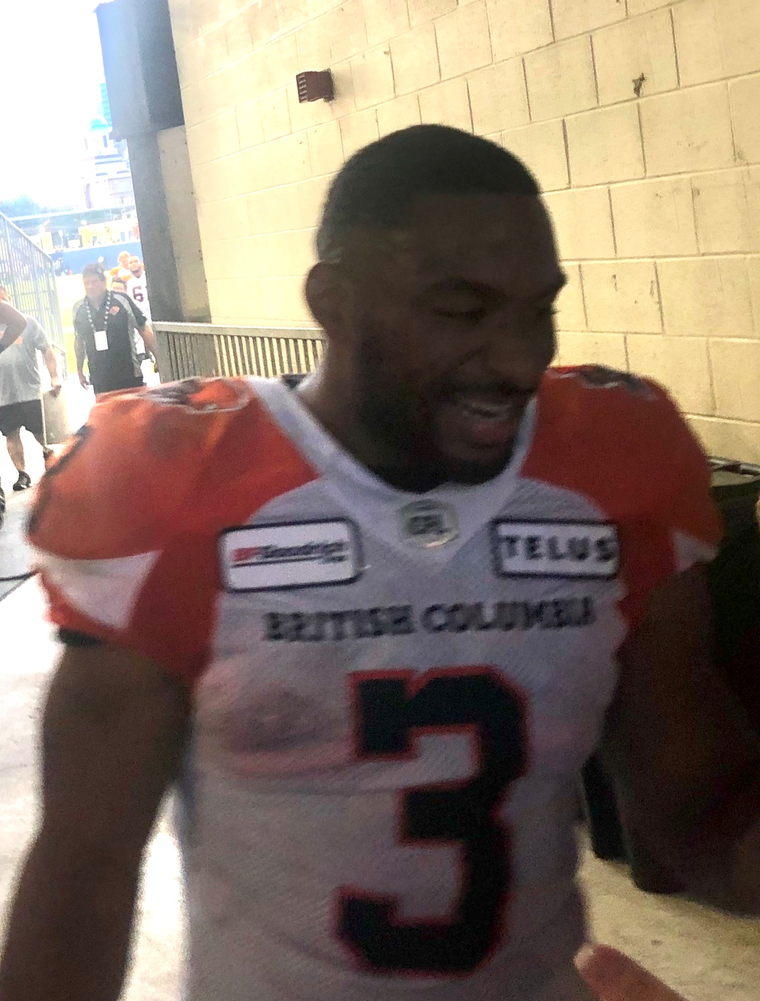 John White, running back for the BC Lions.